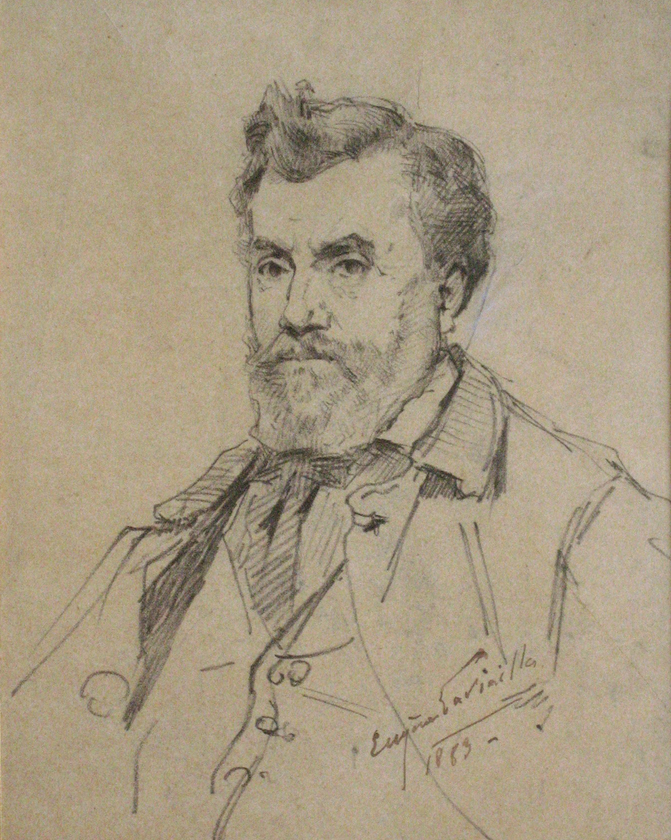 Selfportrait made in 1883 by Eugène Lavieille, a French landscape painter. Fusain drawing